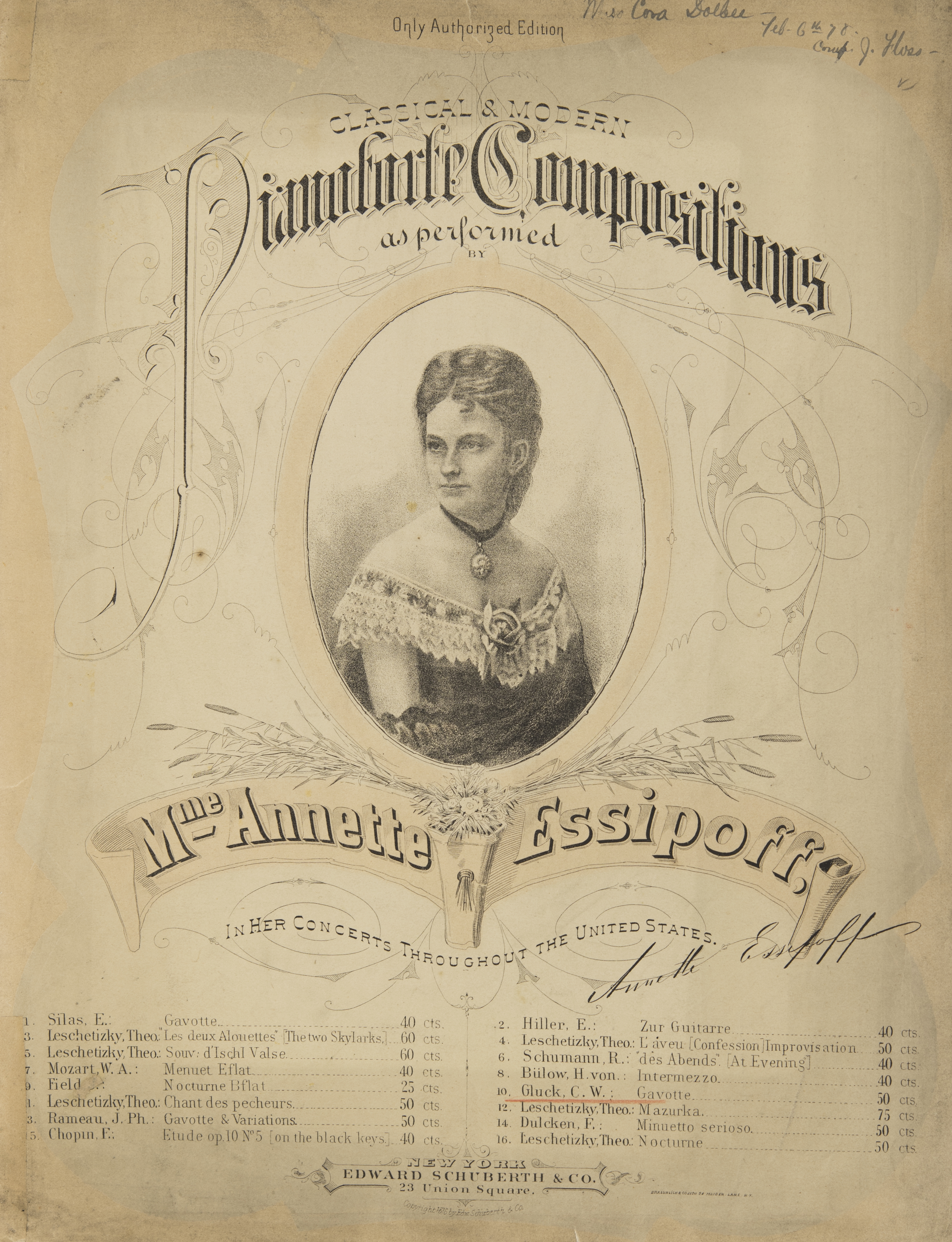 Classical & Modern Pianoforte Compositions as performed by Mme. Annette Essipoff, In Her Concerts Througout the United States.